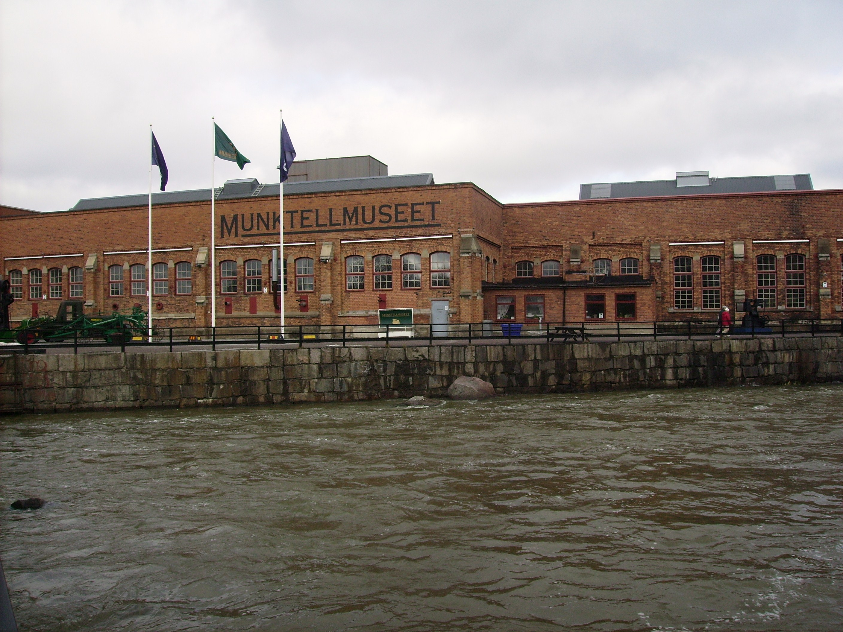 Picture of Munktellmuseet in Eskilstuna